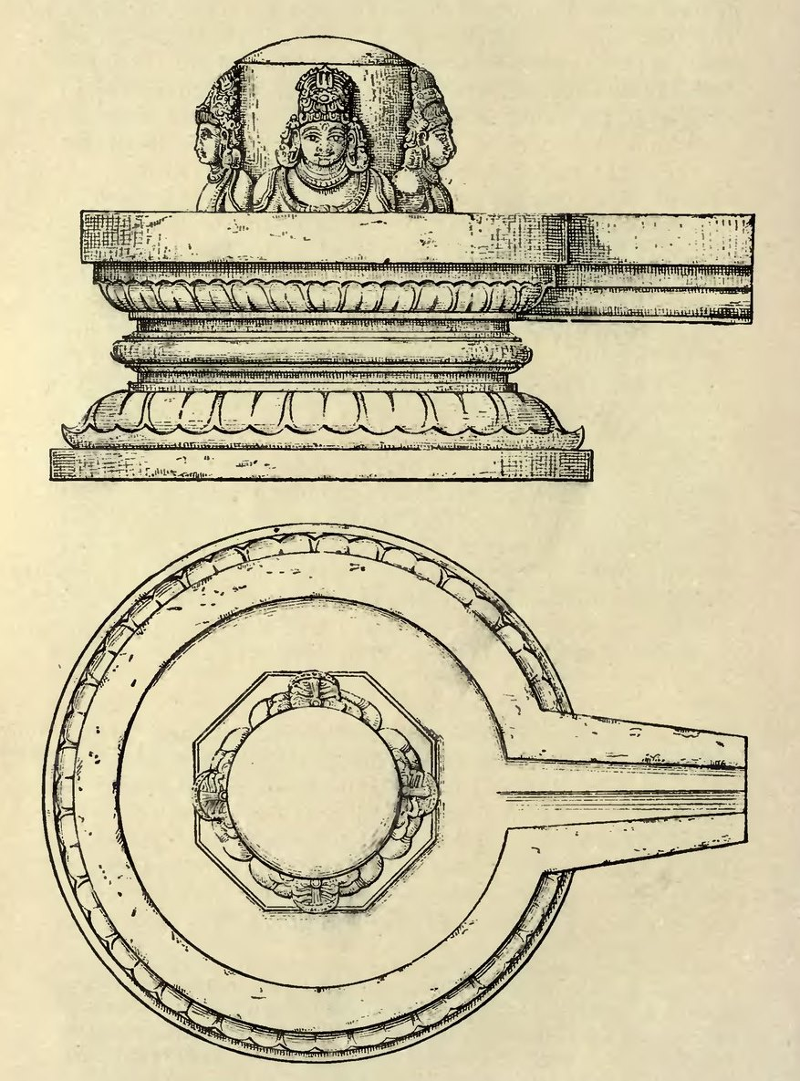 Edited Image of Page No.78-Panchamukha Linga of File:South-Indian Images of Gods and Goddesses